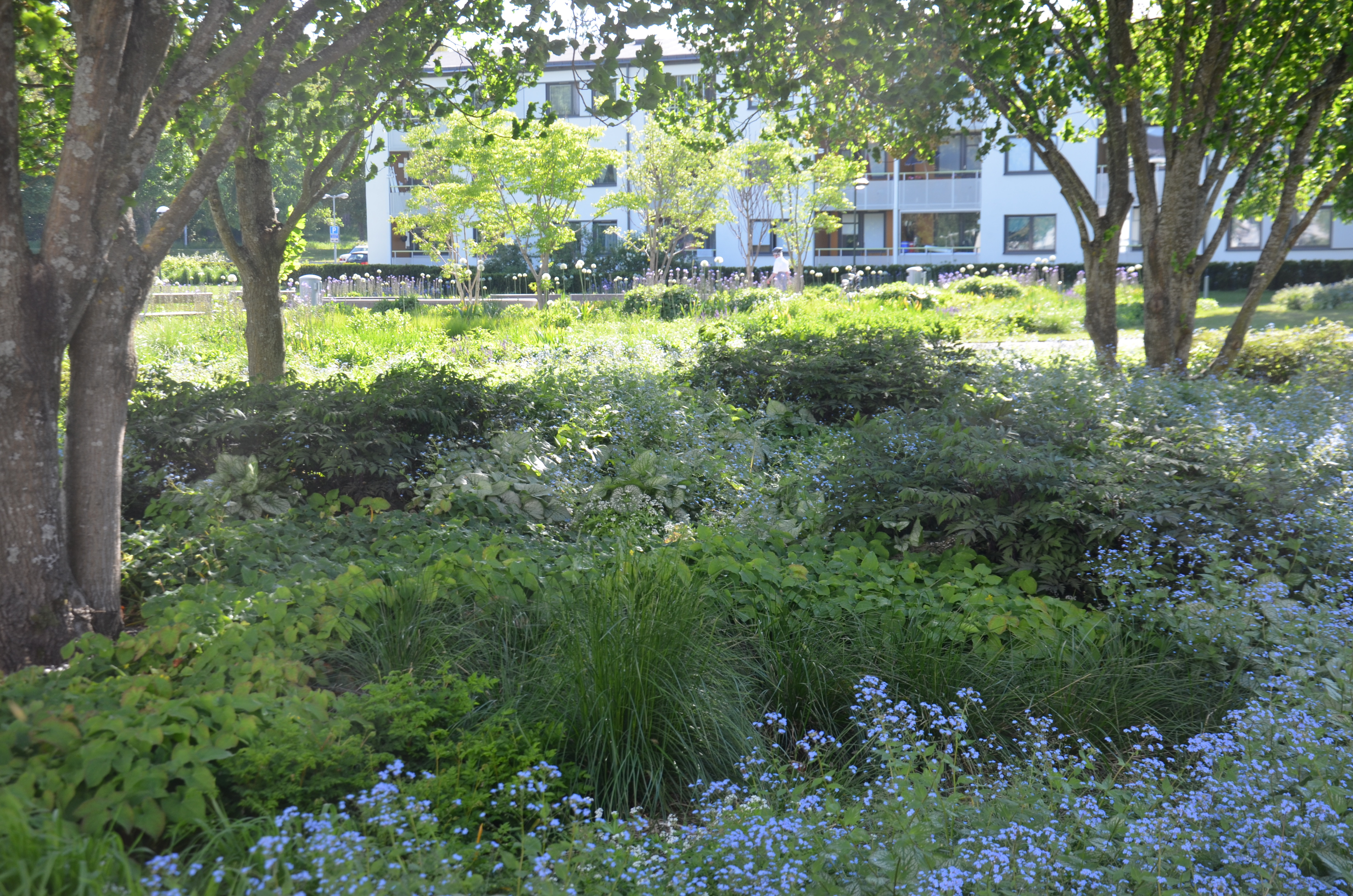 Perennparken at Skärholmen in Stockholm, Sweden. Designed by Piet Oudlof.